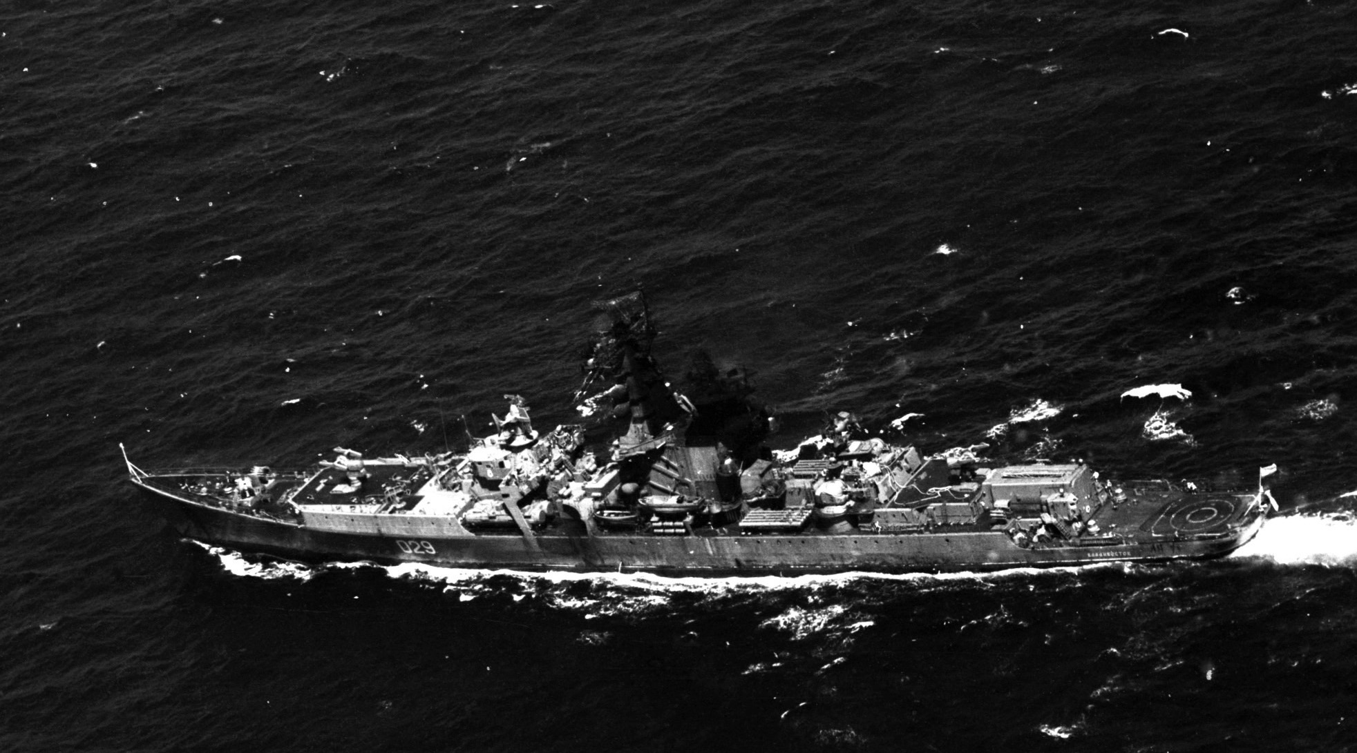 An aerial port view of the Soviet Kresta I class guided missile cruiser VLADIVOSTOK underway.